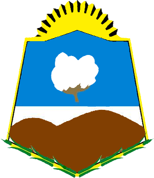 Coat of arms of the Colombian municipality of La Jagua del Pilar Public domain. Created in 1795.